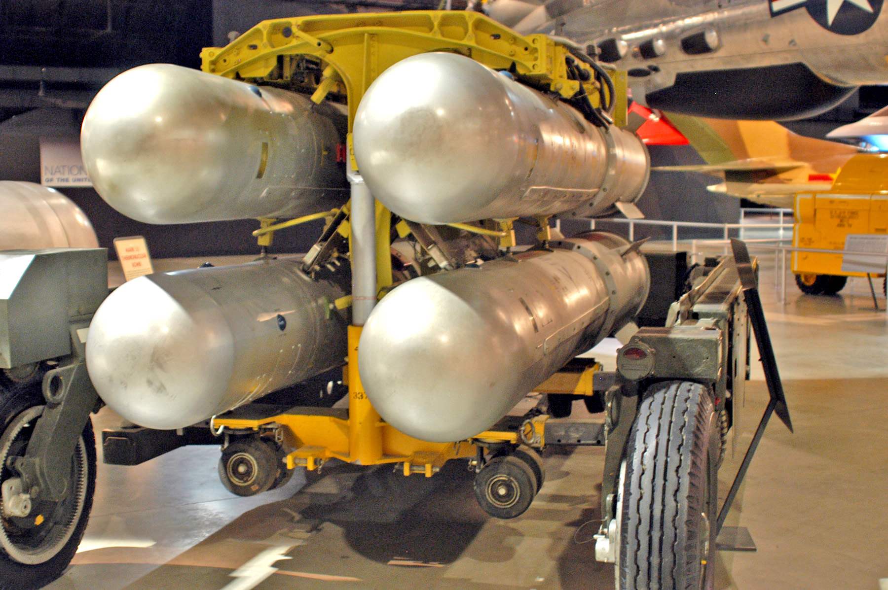 Set of four Mk-28 thermonuclear bombs in a clip-in assembly for loading into an aircraft.